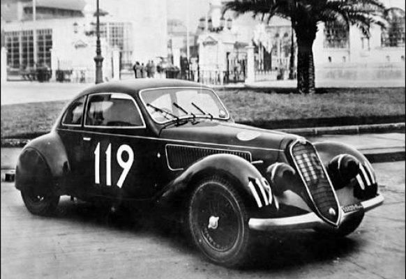 This Alfa Romeo 6C 2300 came in 4th in Mille Miglia in Italia on 4 April 1937, driven by Ercole Boratto and Battista Guidotti.[1]